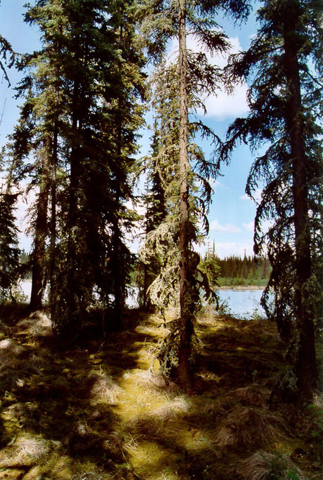 Boreal forest at Scoter Lake, Alaska; Tall white spruce shade the mossy forest floor near a lake on the Yukon Flats NWR